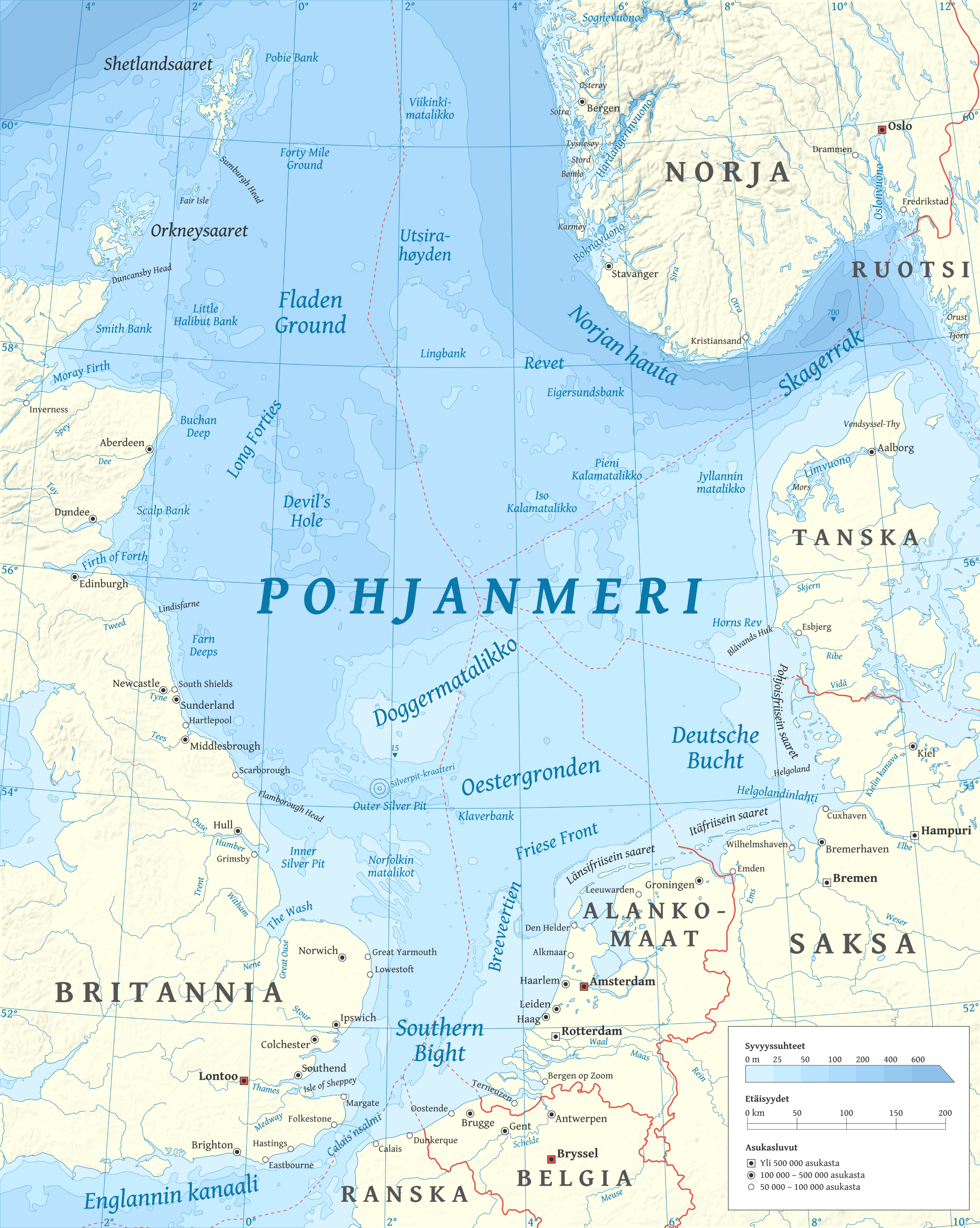 Map of the North Sea in Finnish.